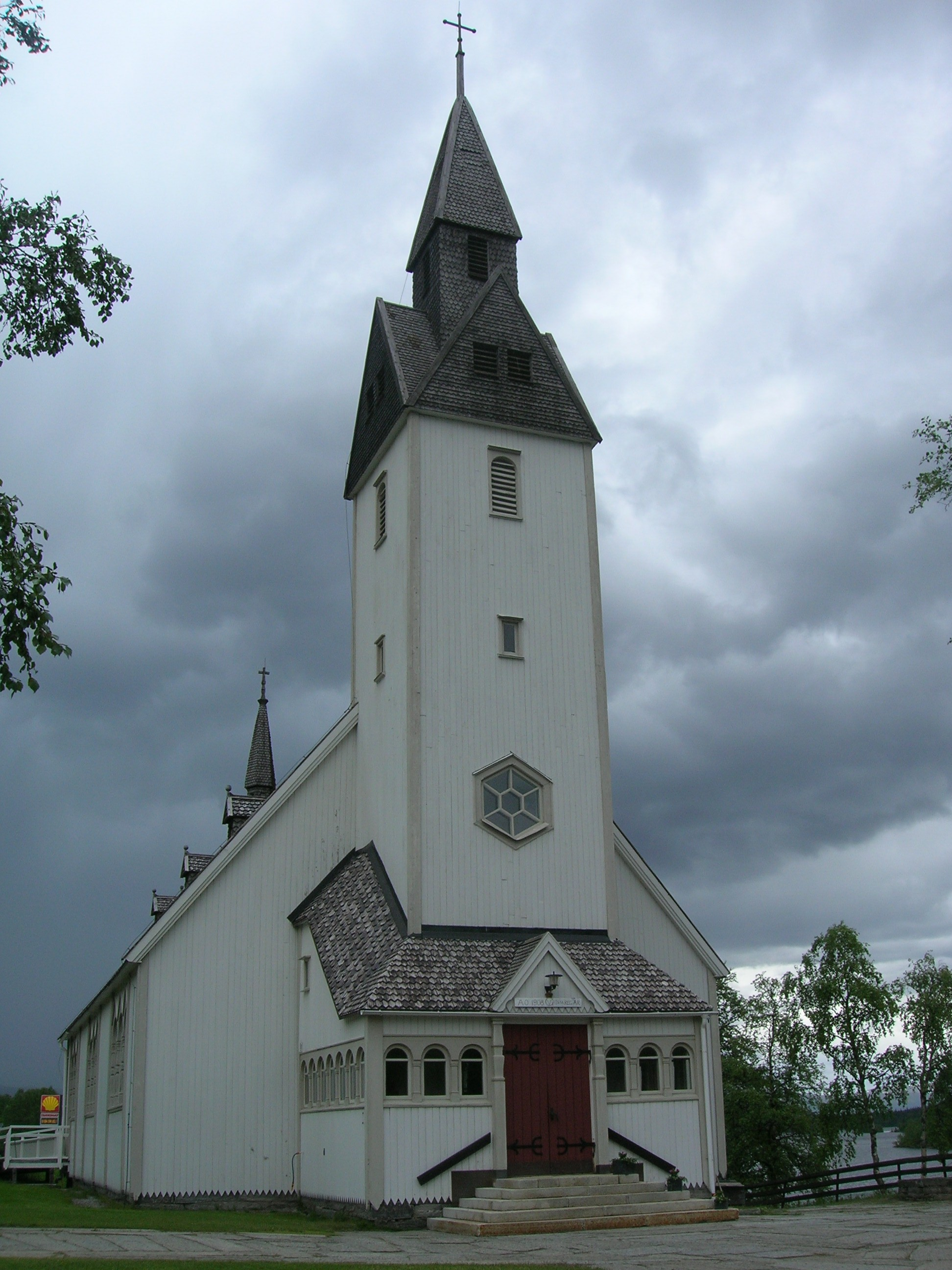 Tärna church in Tärnaby, Storuman municipality, Sweden, Photo 21 June, 2008 with a Nikon Coolpix 5600 5,1 Megapixel camera.